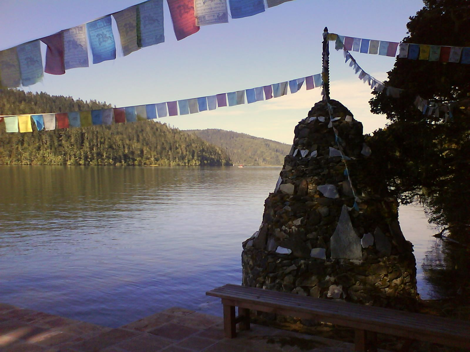 Tibetan plateau, Pota tso natural reserve national park ovoo